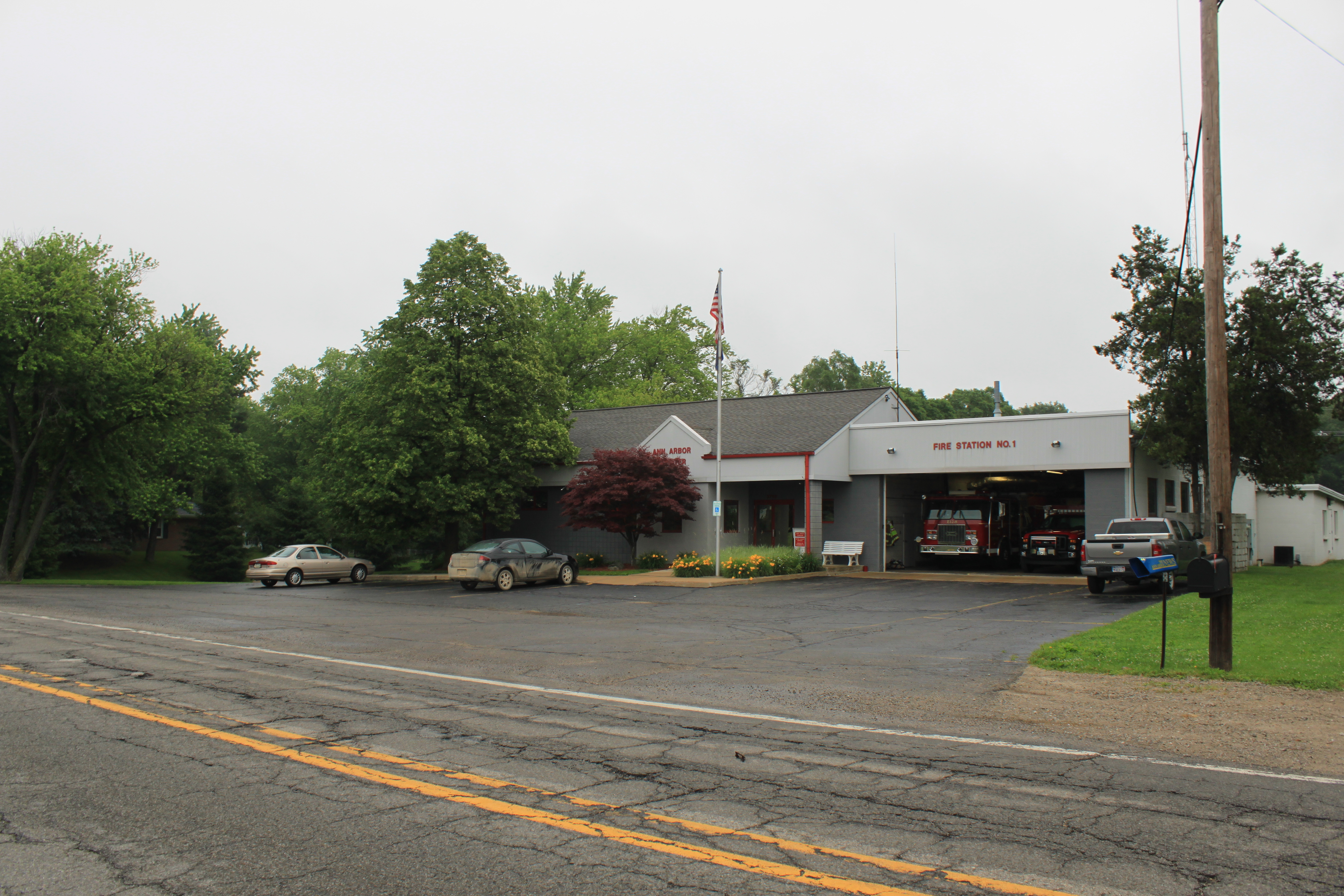 Ann Arbor Township hall and fire station, 3792 Pontiac Trail, Michigan